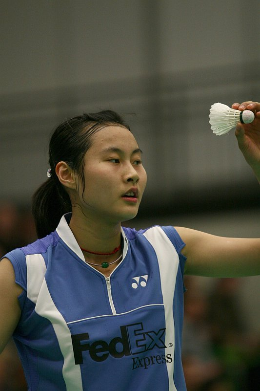 Wang Yihan